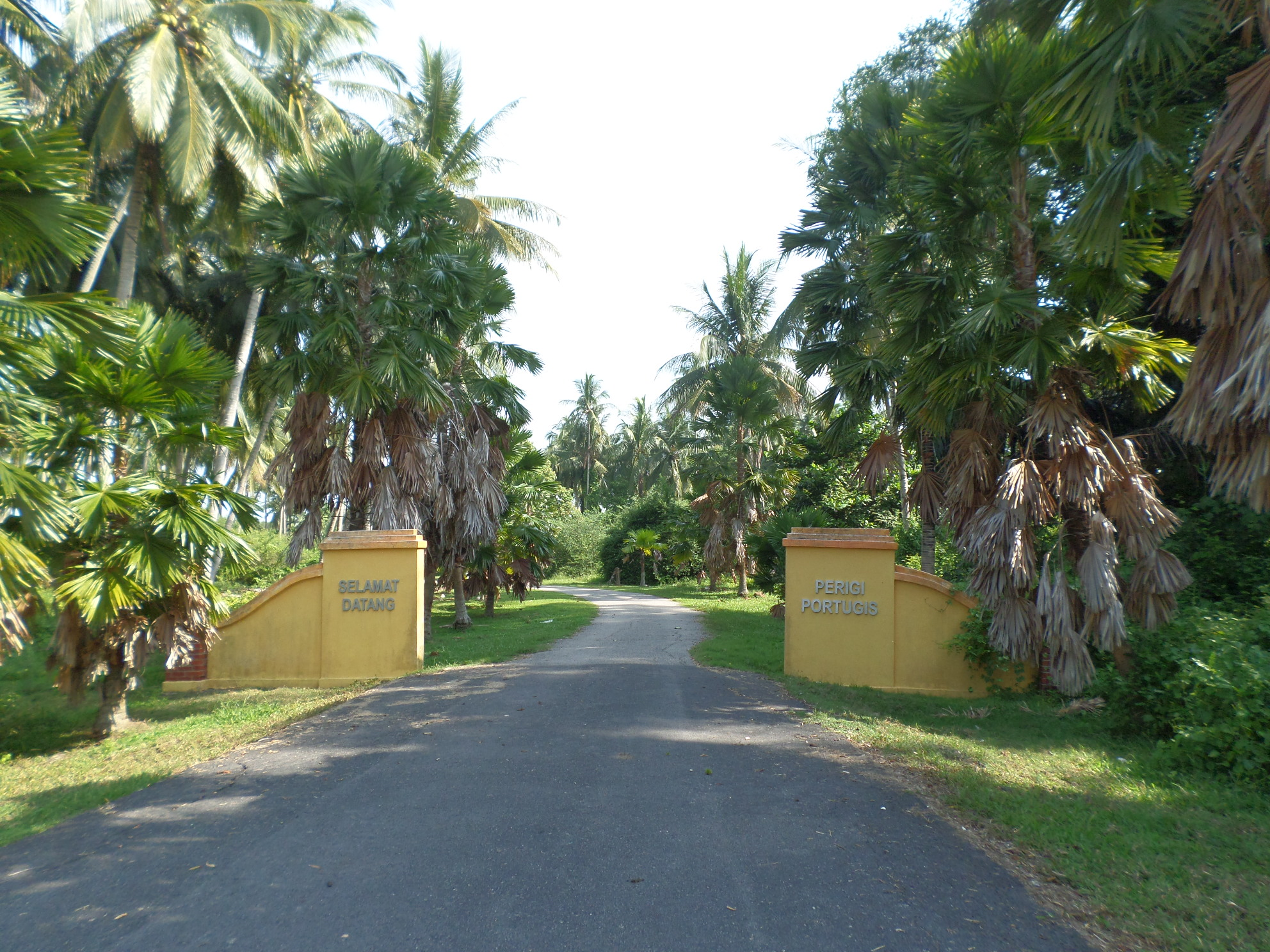 Portuguese Well, Merlimau, Jasin, Malacca, MalaysiaBahasa Melayu: Perigi Portugis, Merlimau, Jasin, Melaka, Malaysia